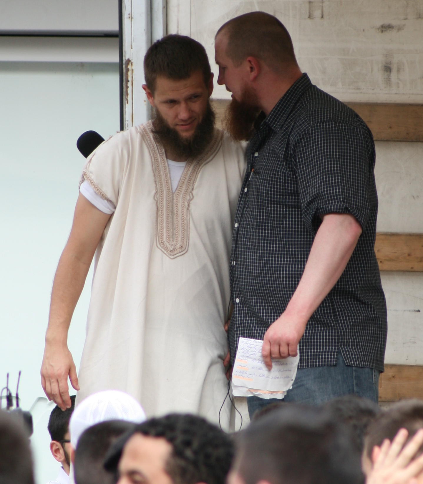 Sven Lau (l.) and Pierre Vogel (r.) talking during a demonstration in Freiburg im Breisgau on June 7, 2014